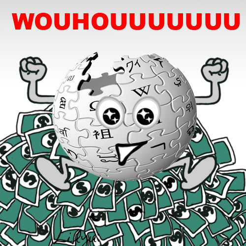 Alfred P. Sloan's Foundation gave 3 Millions $ to Wikimedia Foundation !!! (26 march 2008)